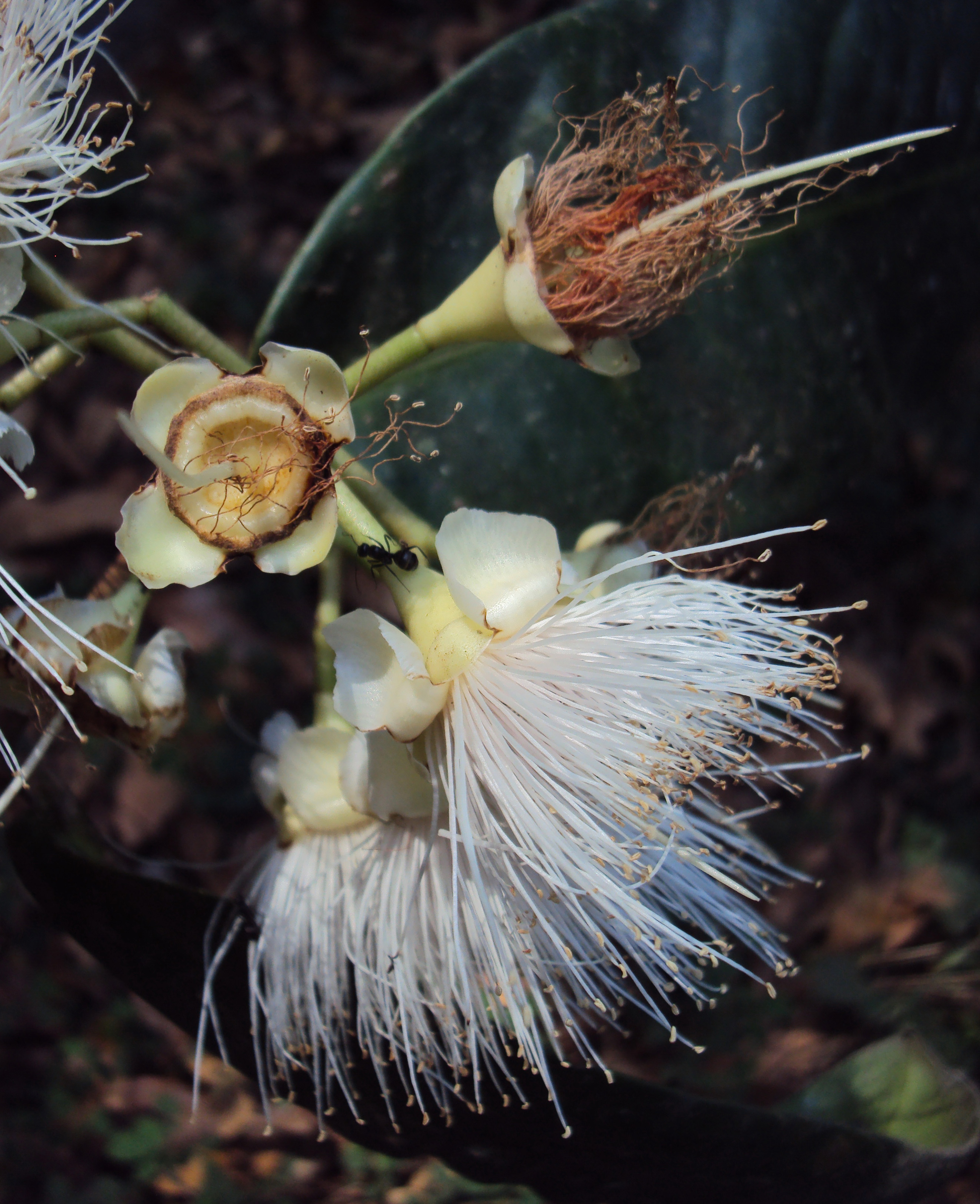 Syzygium mundagam